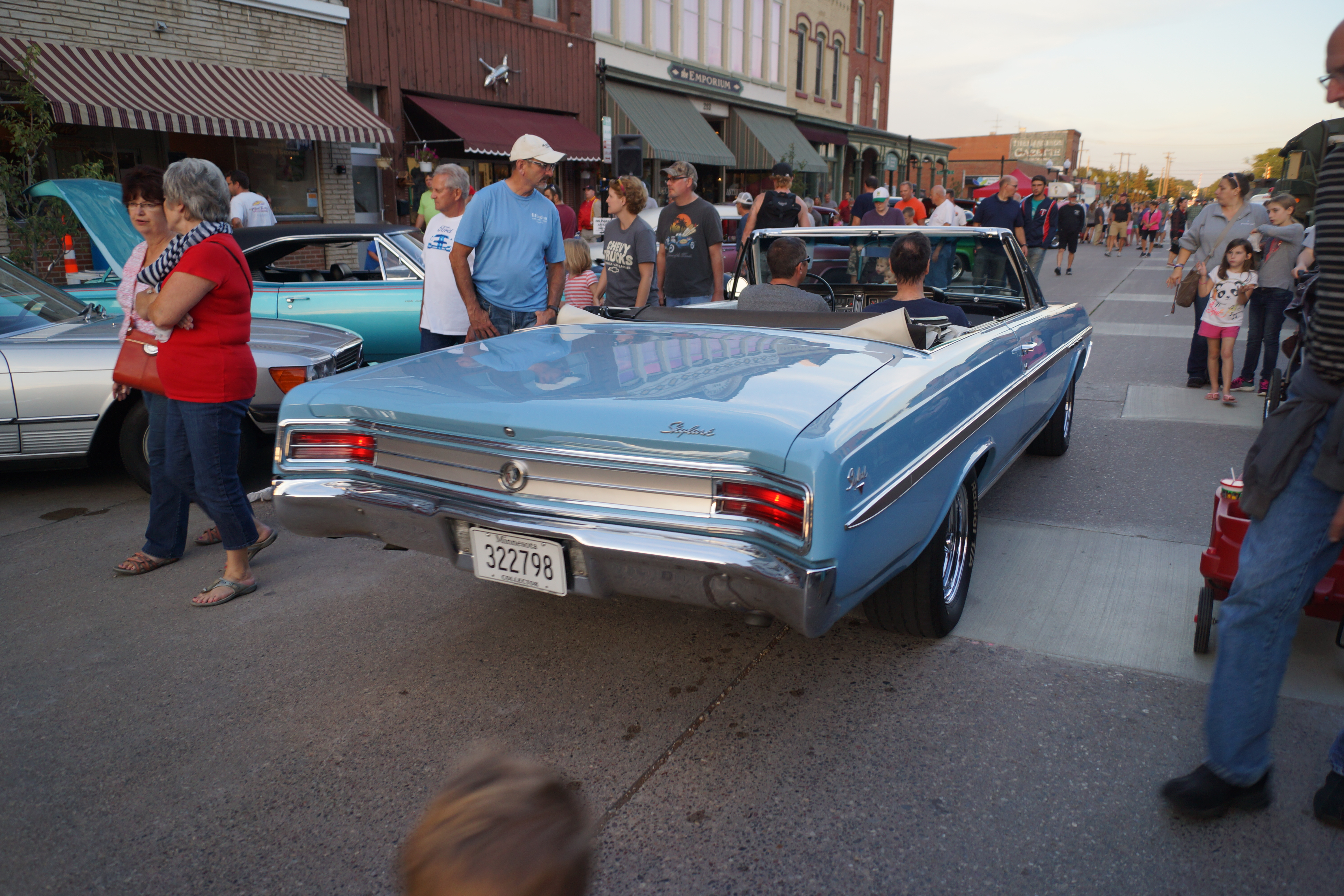 HISTORIC DOWNTOWN HASTINGS CRUISE-IN & CLASSIC CAR SHOW Hastings, Minnesota September 2016 Click here for more car pictures at my Flickr site.